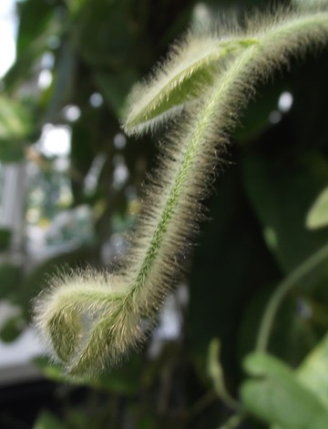 Aristolochia pilosa at New York Botanical Garden, Bronx, NY, USA